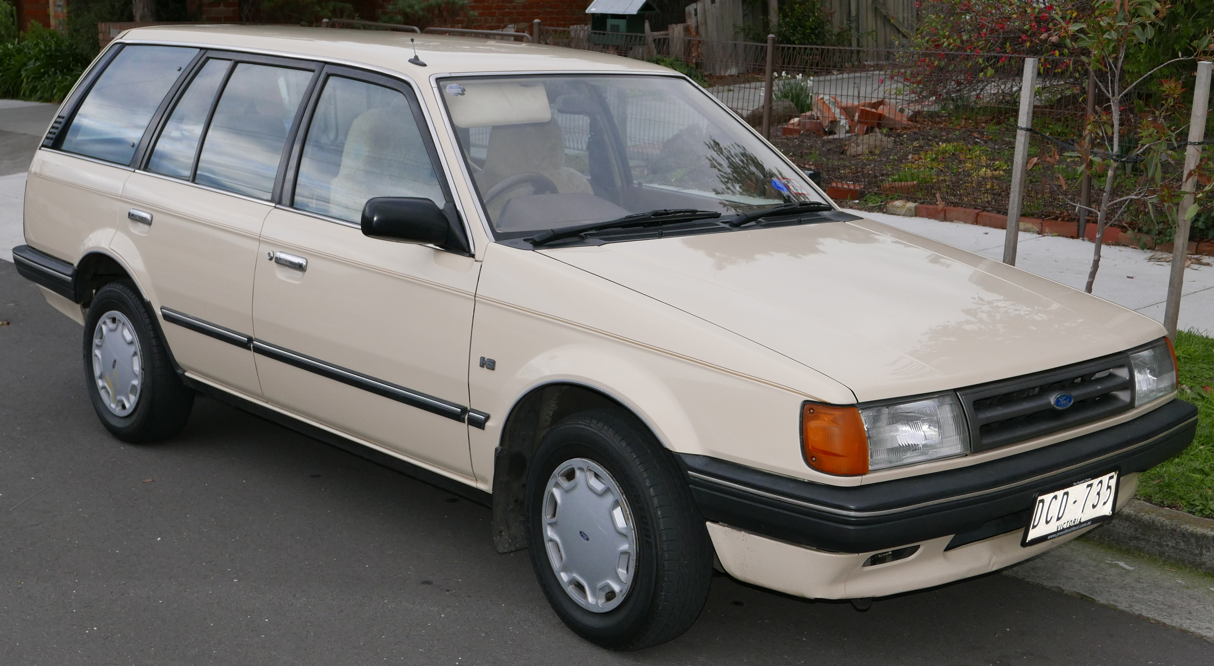 1987 Ford Meteor (GC) GL station wagon. Photographed in Hampton, Victoria, Australia. Vehicle registration enquiry results Jurisdiction Victoria Registration DCD735 Chassis code Not available Engine code B6162268 Compliance date Not available Year of manufacture 1987